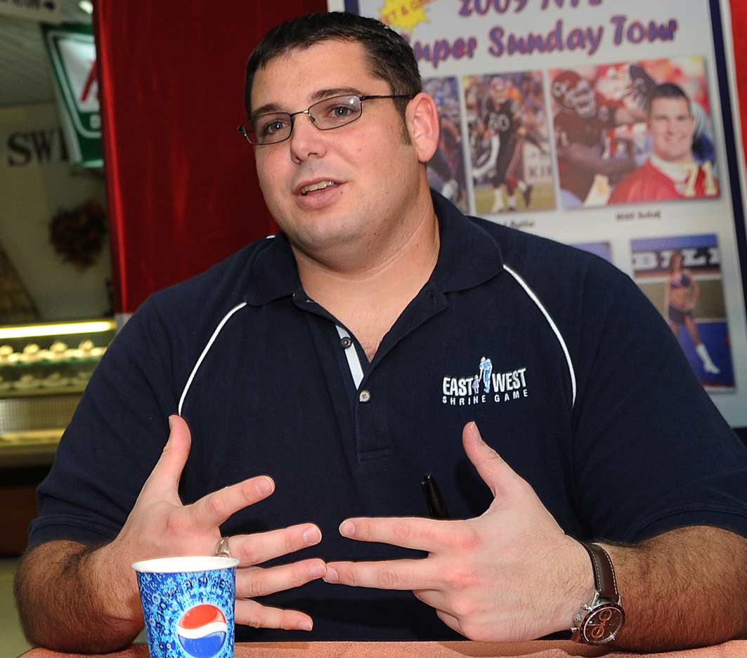 U.S. Air Force Staff Sgt. Henry Dowers, from Newport, Ind., meets Aaron Merz, Buffalo Bills offensive lineman, at Camp As Sayliyah, Qatar, Jan. 31. “I have two teenagers who are into football,” said Dowers. “I wanted some tips to pass on to them about how to approach the sport on and off season. Merz explained the importance of not focusing on one sport, but to excel at others too. Once you’re good at one, you should take a break and try another. Them coming out here shows they support us as much as we support them.” Merz, Will Svitek and Brad Butler traveled to Southwest Asia for Super Bowl Sunday with servicemembers overseas. (Official Army Photo/ Dustin Senger)